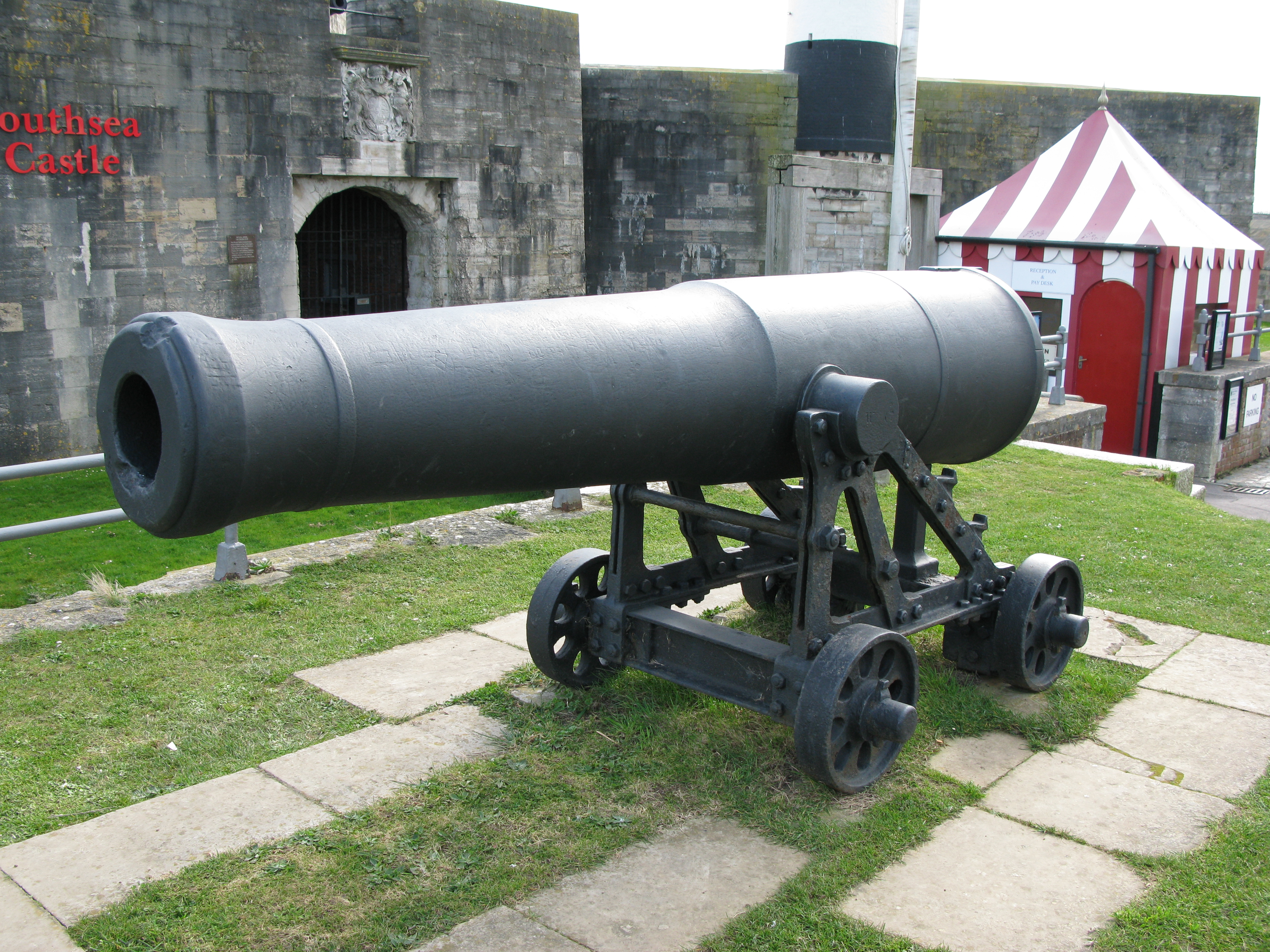 Photo of a 68 pounder gun outside Southsea Castle claimed to be 96 cwt but this may be an error : standard weight was 95 cwt.